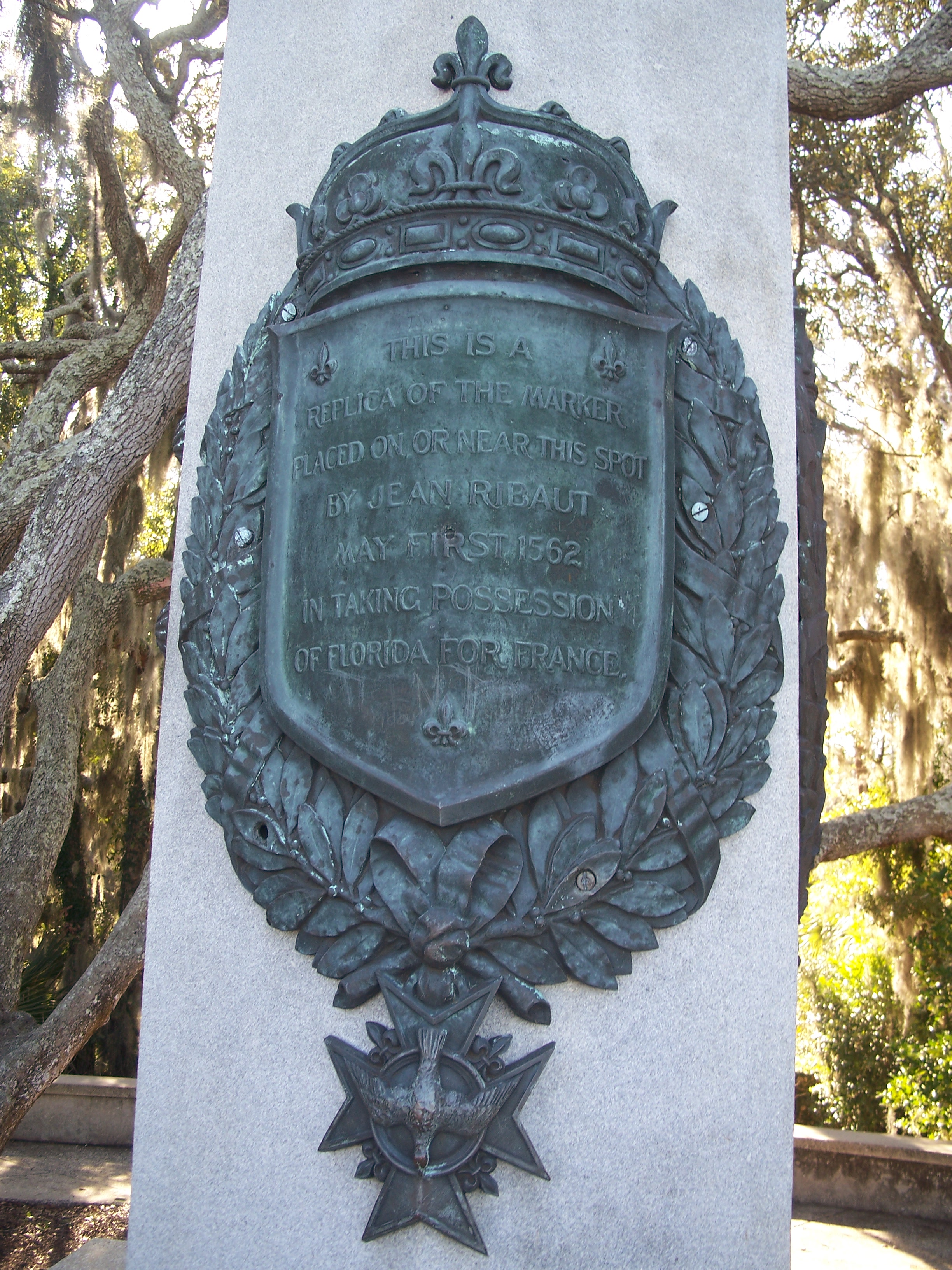 Timucuan Ecological and Historic Preserve: Fort Caroline National Memorial: Ribault monument